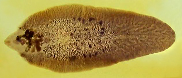 Slide of Fasciola hepatica, from teaching slides at the University of Edinburgh.